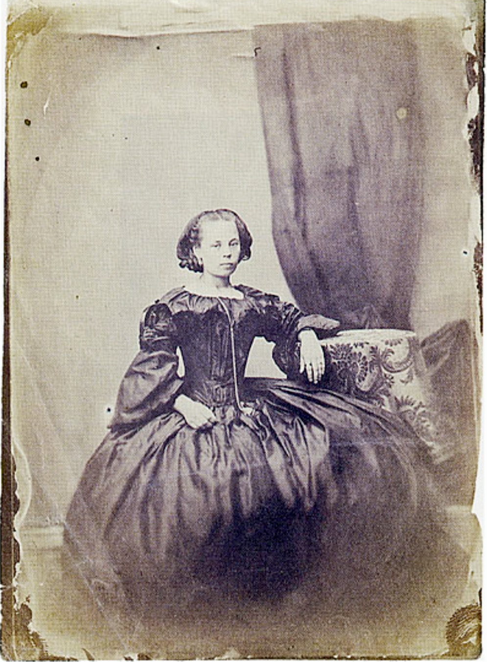 Photo by Johan Jakob Reinberg (1823–1896), Turku, Finland